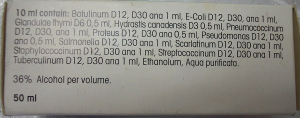 the meaningless concoctions of homeopathy, from formula R87